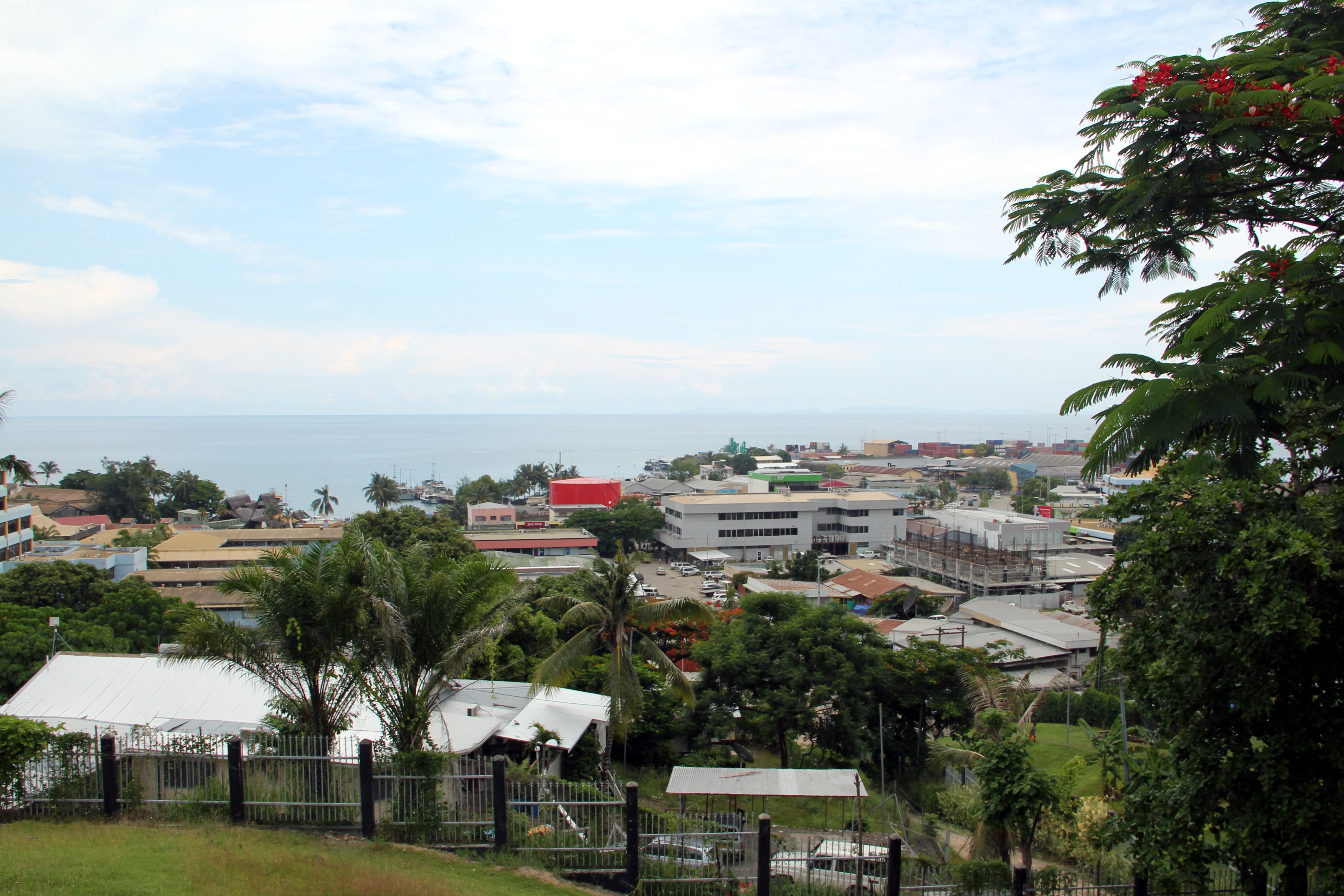 Looking towards downtown